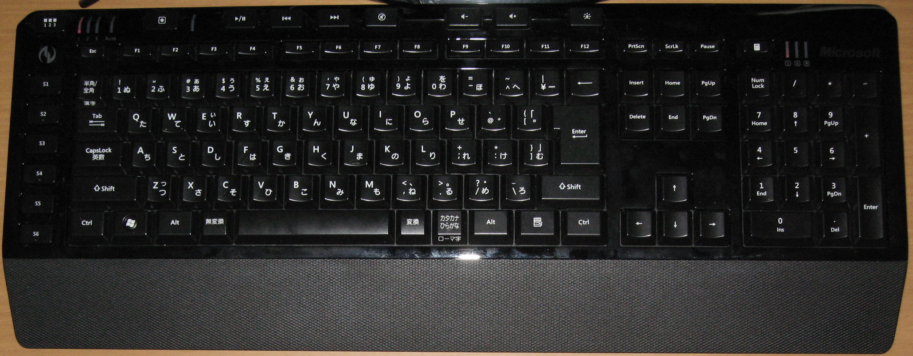 Japanese gaming keyboard by Microsoft. It follows 109-key layout but the right Windows logo key is dropped, additional media control keys and gaming macro keys (S1–S6) are placed.